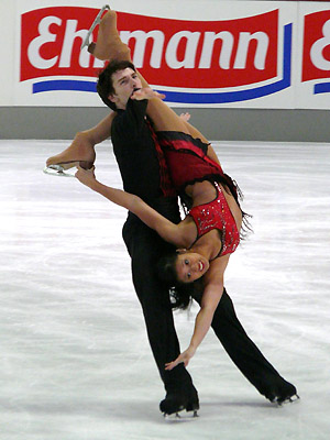 Lynn Kriengkrairut and Logan Giulietti-Schmitt during their free dance at the 2007 Nebelhorn Trophy.